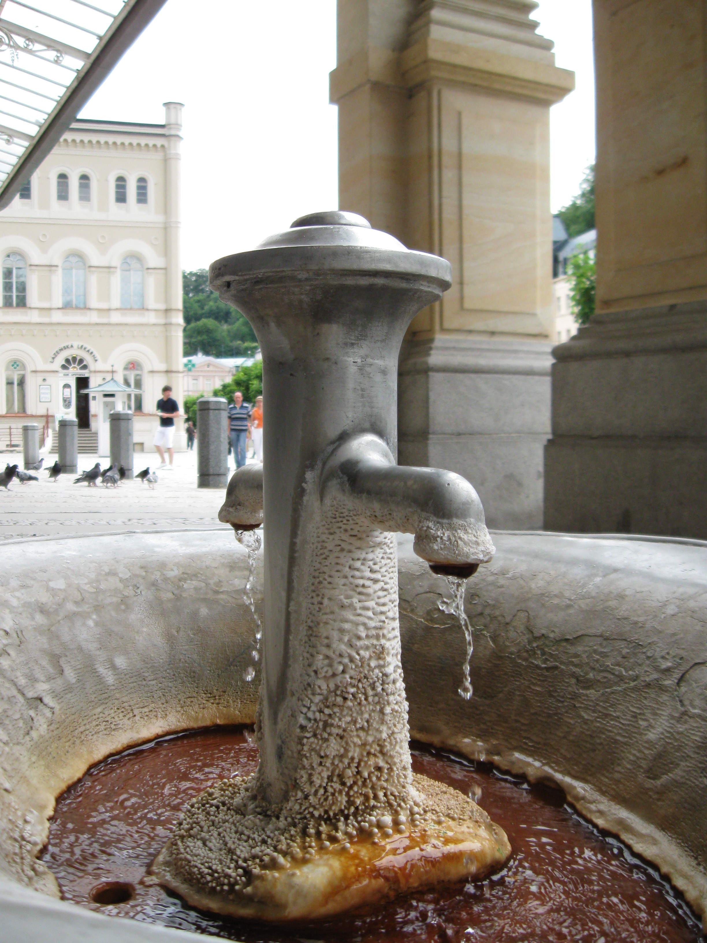 The Spring of the Rock, Mill Collonade, Karlovy Vary, Czech Republic.